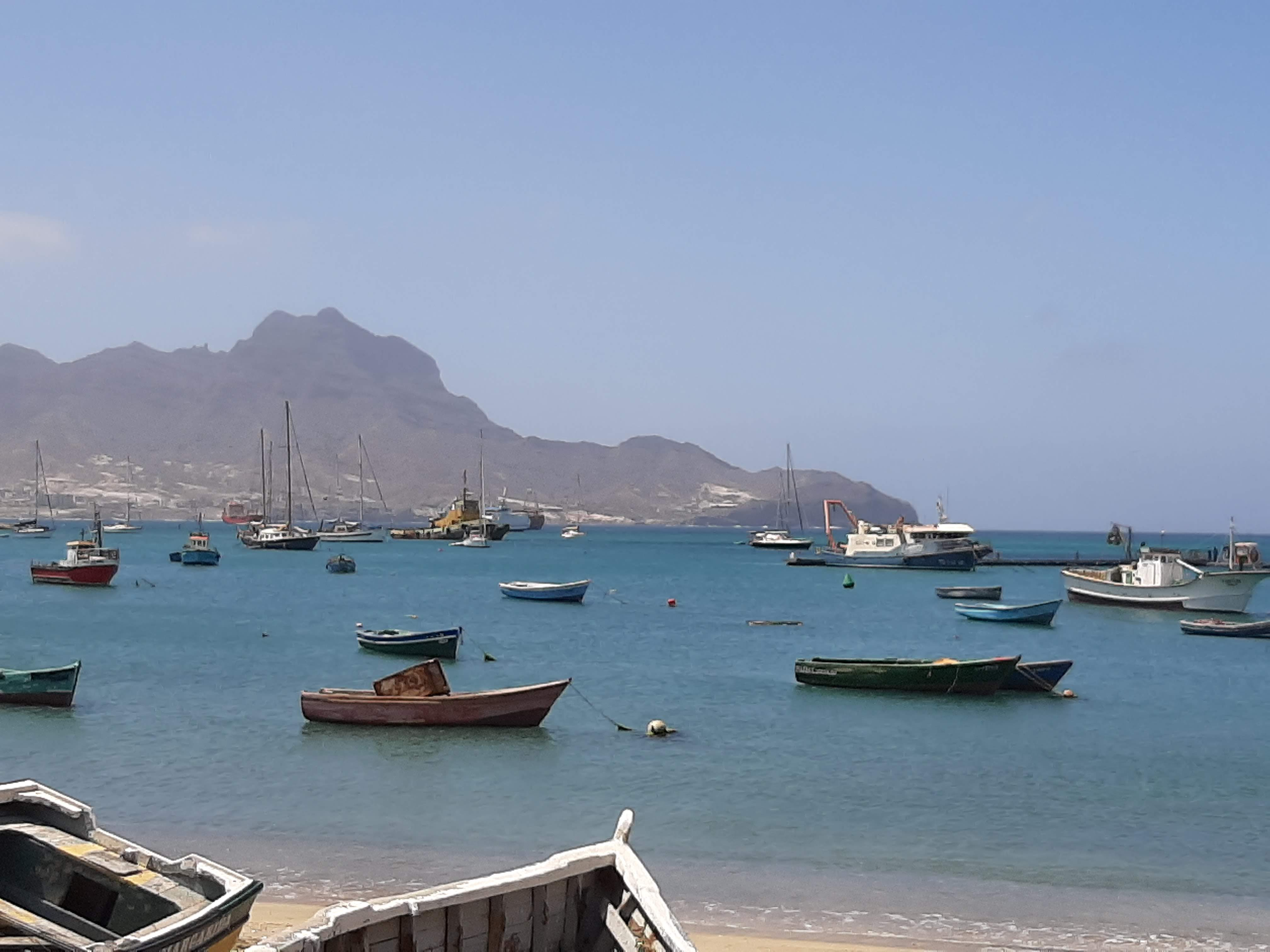 This is an image with the theme "Africa on the Move or Transport" from: Cape Verde